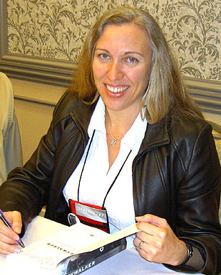 The author had gotten a small quantity of her first book, "Greywalker"', to have with her at Bouchercon (world mystery convention) a few days in advance of its official publication date. She is signing one in this photograph. The photo was cropped to this size in Photoshop.